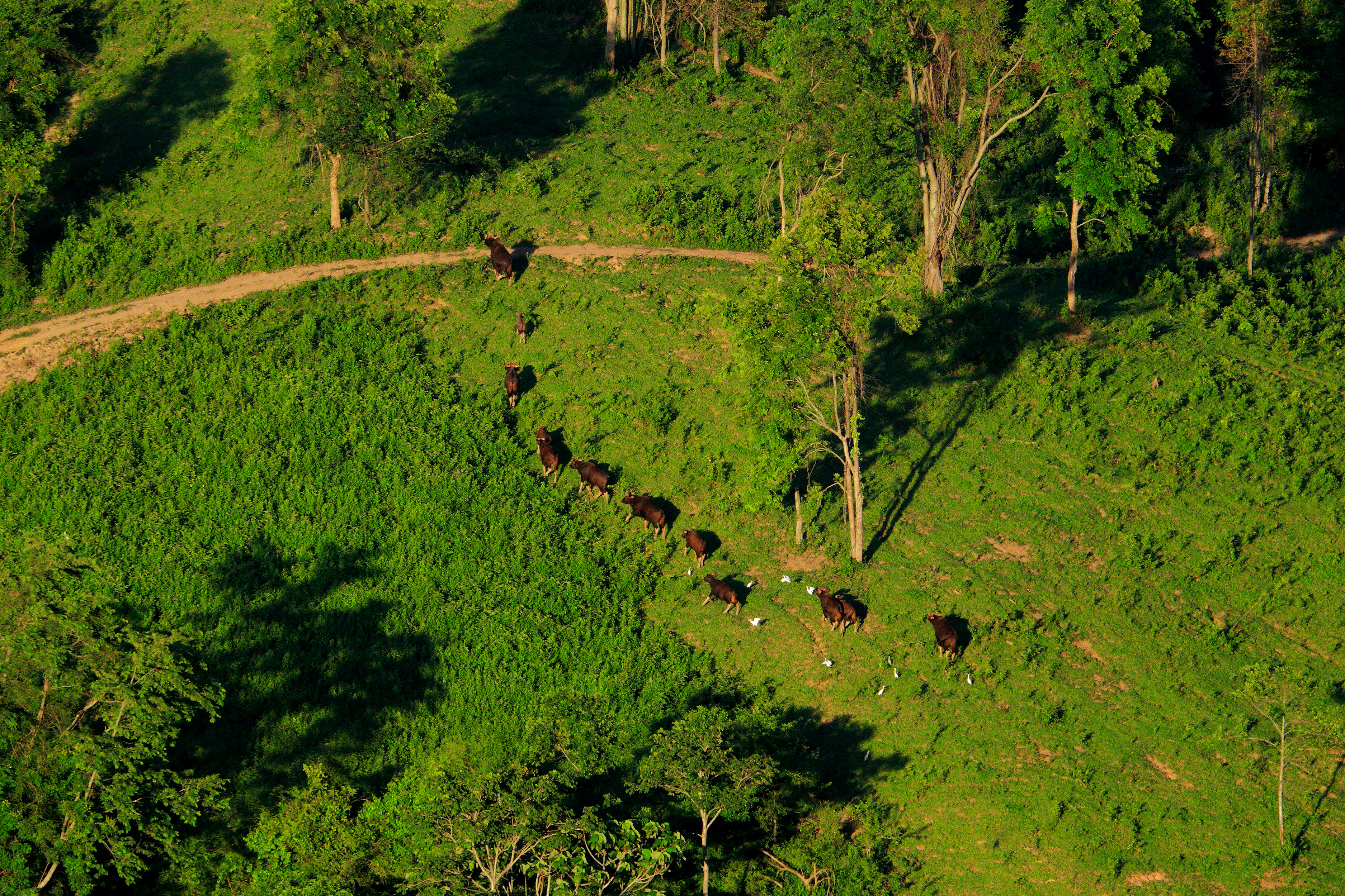 A herd of wild gaurs (Bos gaurus) in the area of Thap Lan National Park